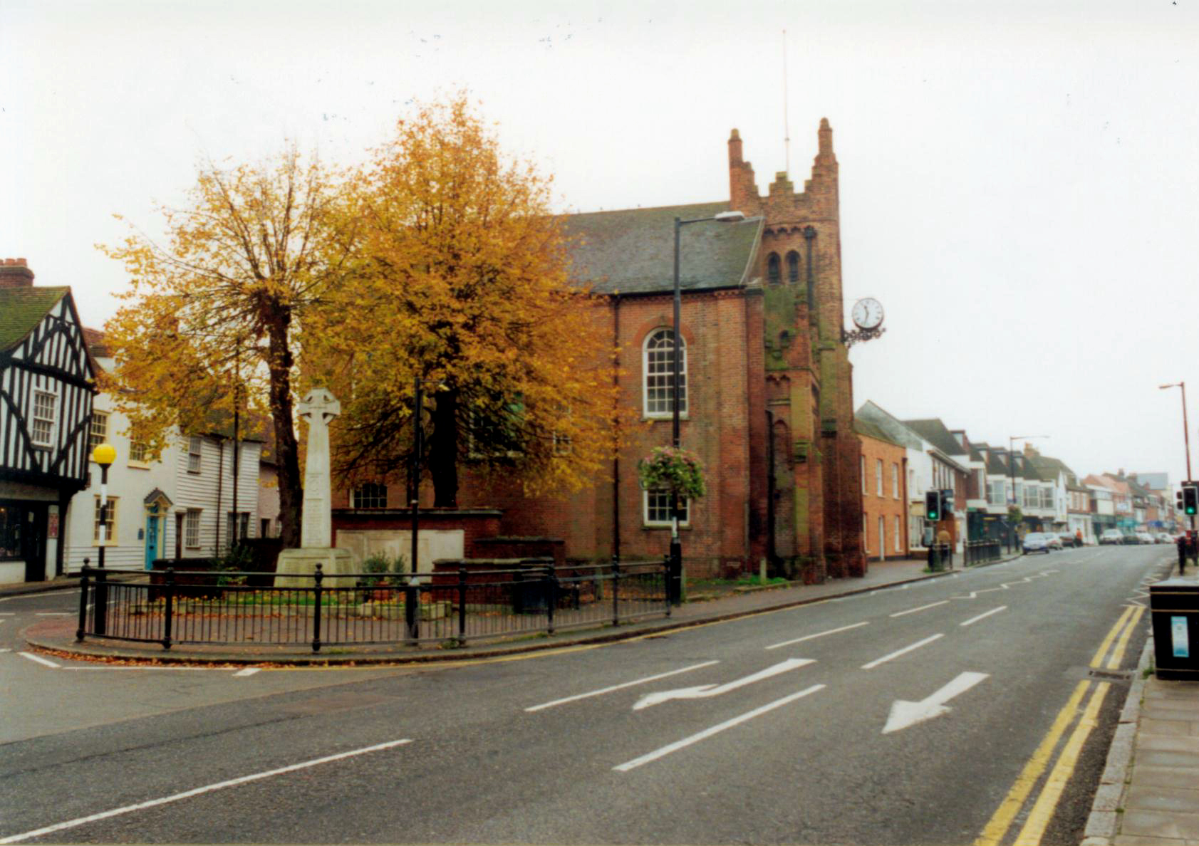 Captured by S G Brown on a still camera and scanned in and manipulated with permission by user user:Ksbrown. Uploaded 14 Sep 2006.